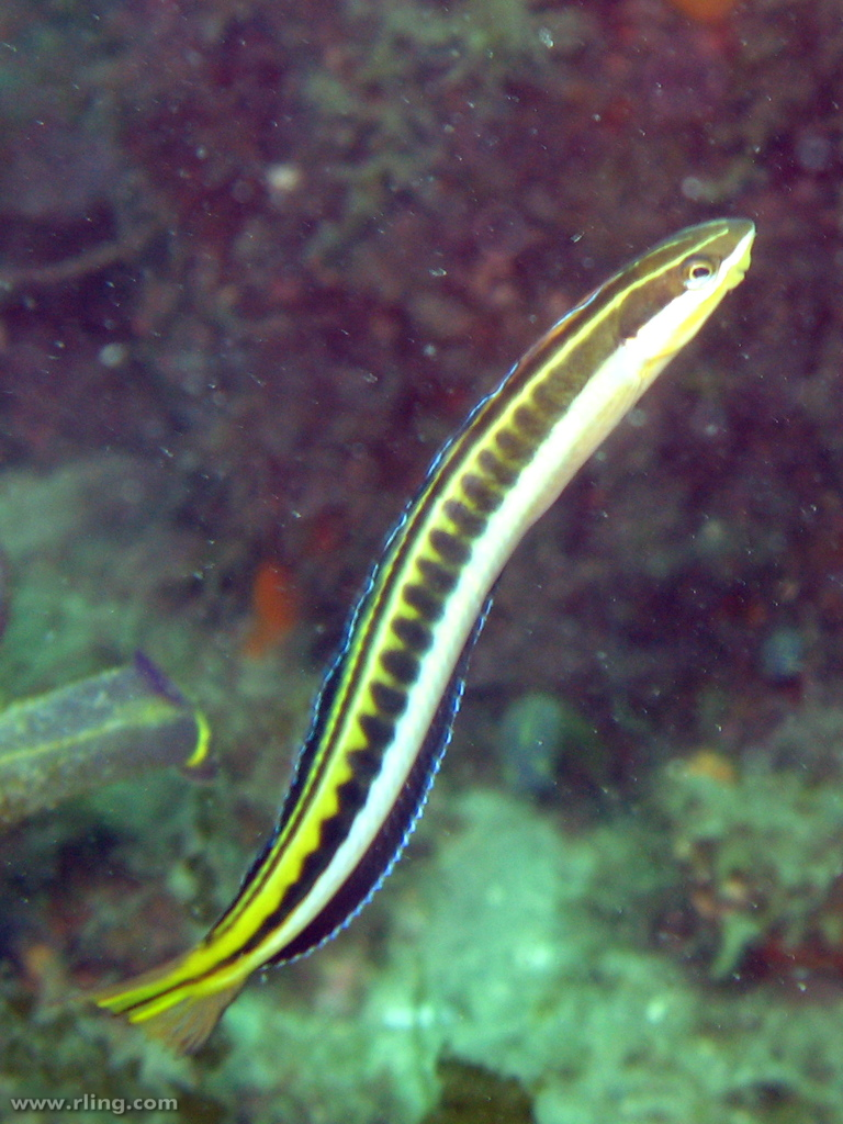 A Piano Fangblenny (Plagiotremus tapeinosoma). Fly Point, Port Stephens, NSW